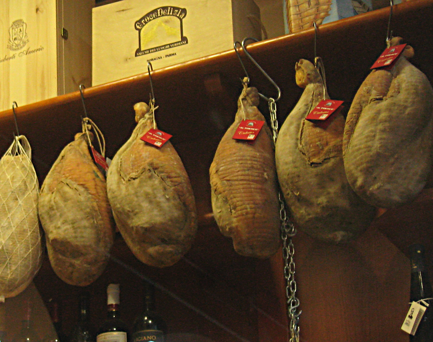 Culatta / culaccia, typical product of Parma